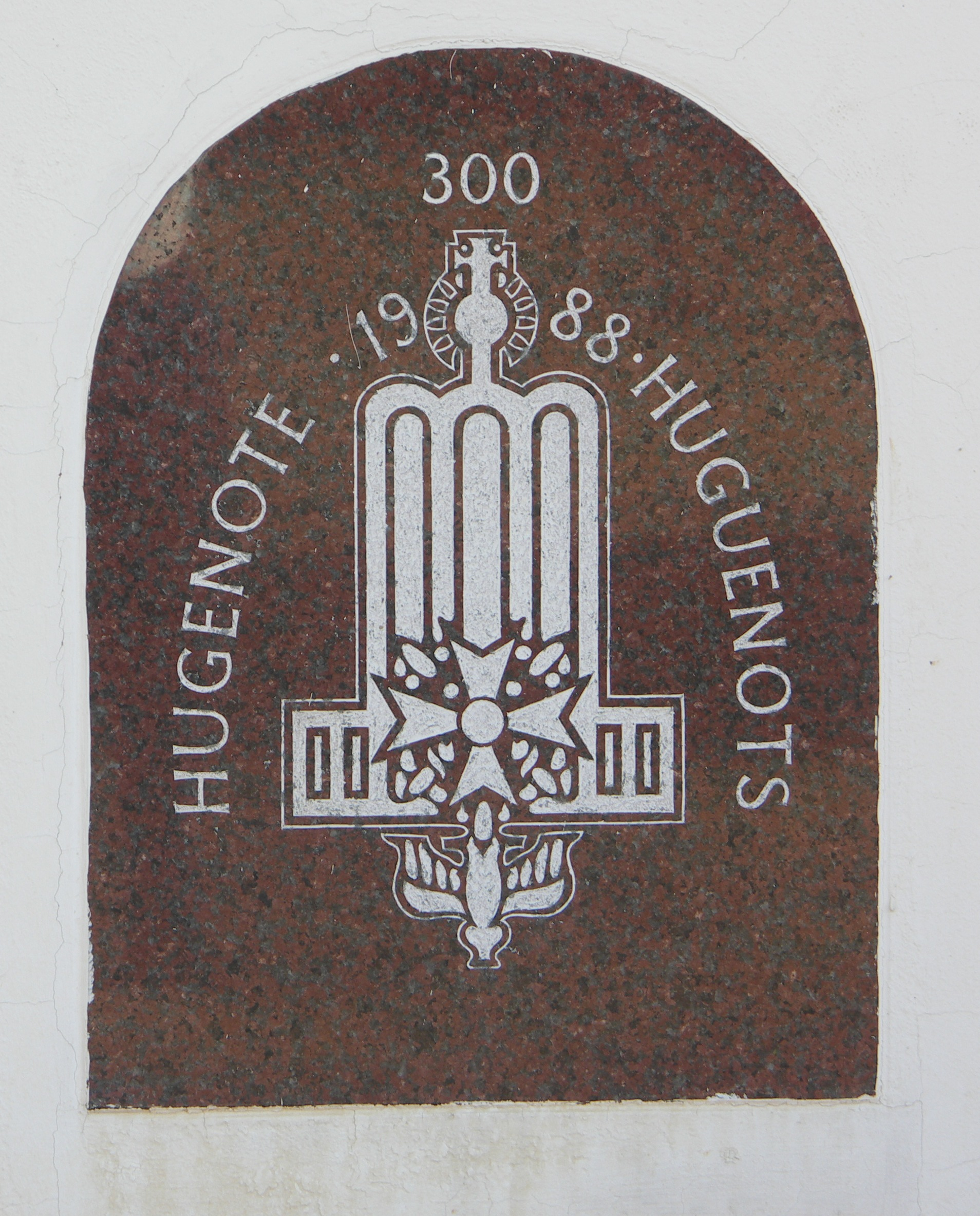 Depiction of the Huguenot cross and the Huguenot Monument on the Huguenot Memorial in the Johannesburg Botanical Garden. The memorial commemorates the 300th anniversary (1988) of the arrival of the Huguenots in South Africa.